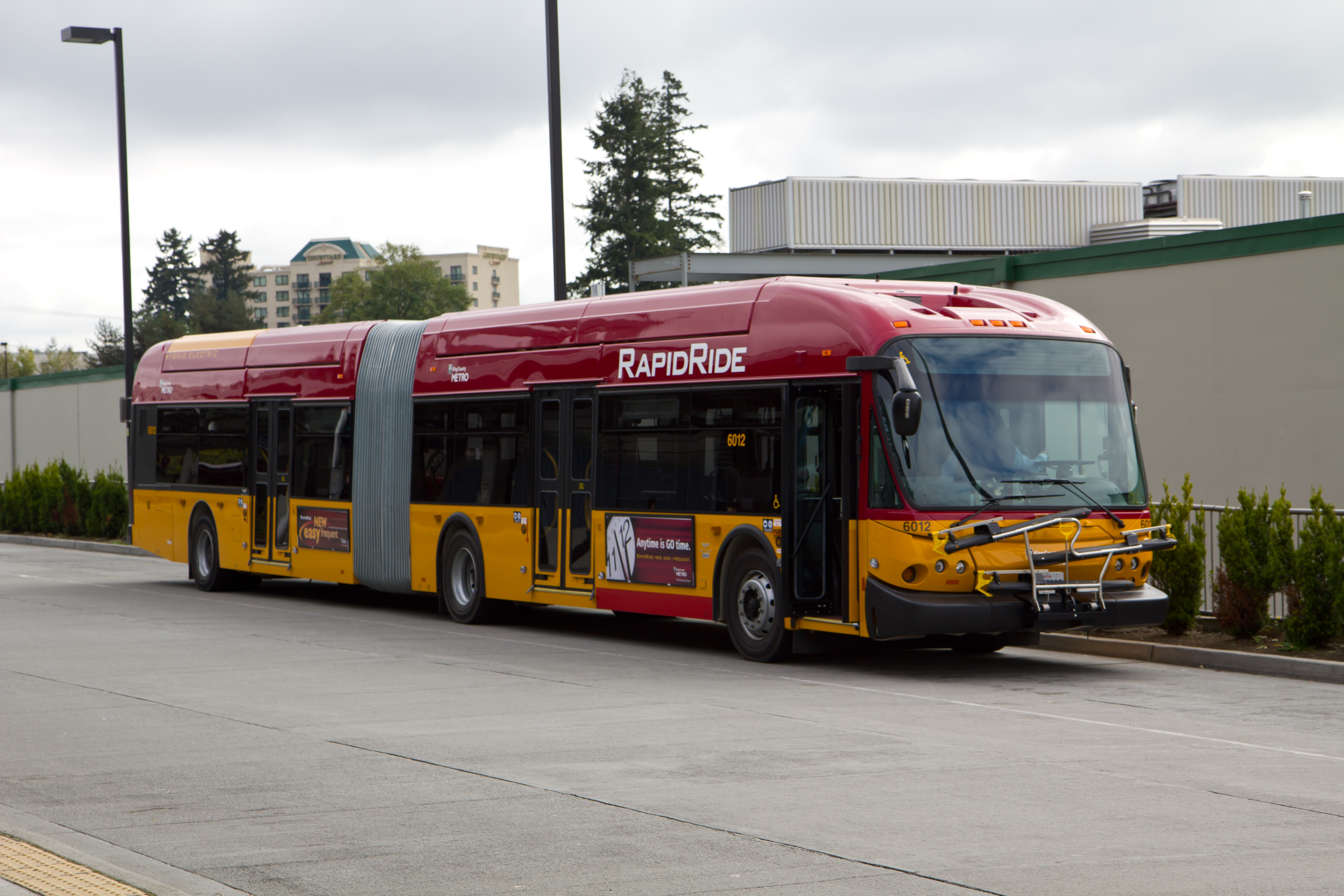 Laying over at the Federal Way Transit Center